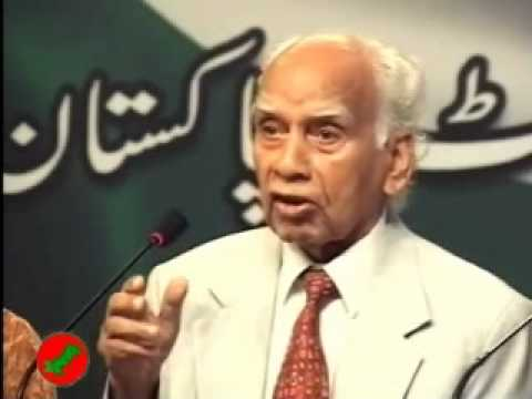 Dr. Farman Fatehpuri addressing symposium